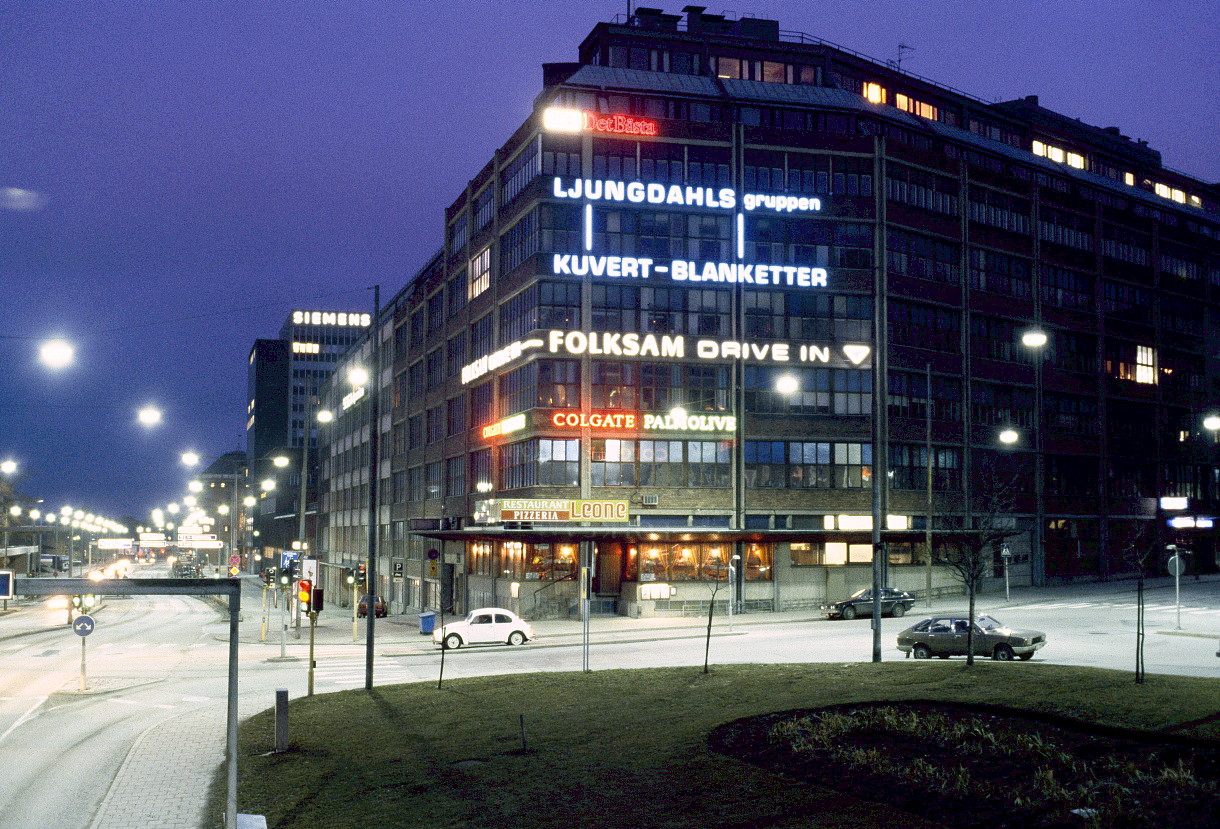 FOTOGRAFINorra Stationsgatan sedd i nattbelysning. Mot nordost från Torsplan. Till höger Bröderna Hedlunds industribyggnad med ljusreklam. 1989-1989FOTOGRAF: Norgren, Klas.BILDNUMMER: Dia 6003Stadsmuseet i Stockholm